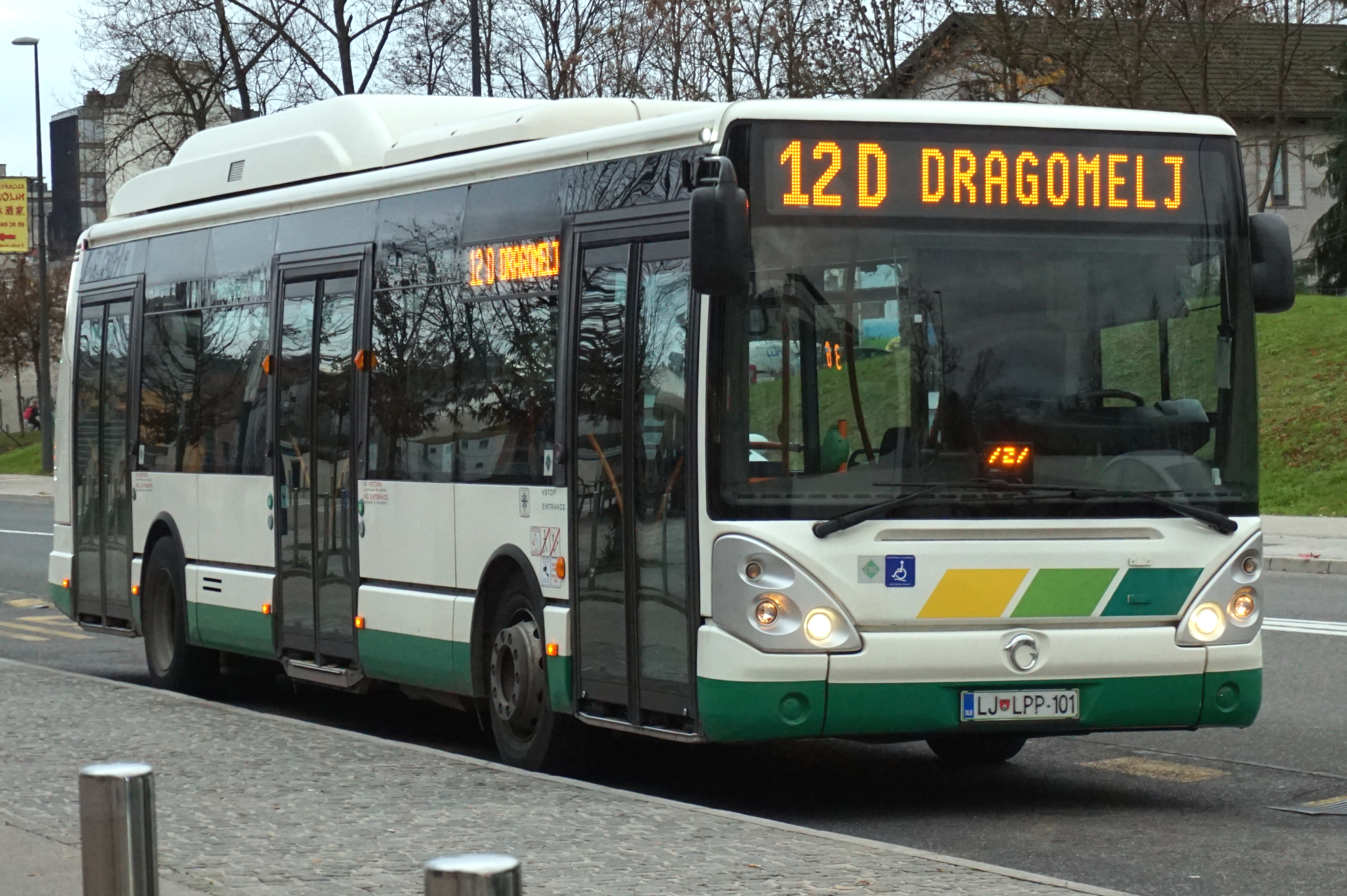 An Irisbus (Iveco) Citelis 12m CNG city bus owned by LPP (no. 101); on line 12D Bežigrad–Dragomelj; on the final station at Železna cesta.